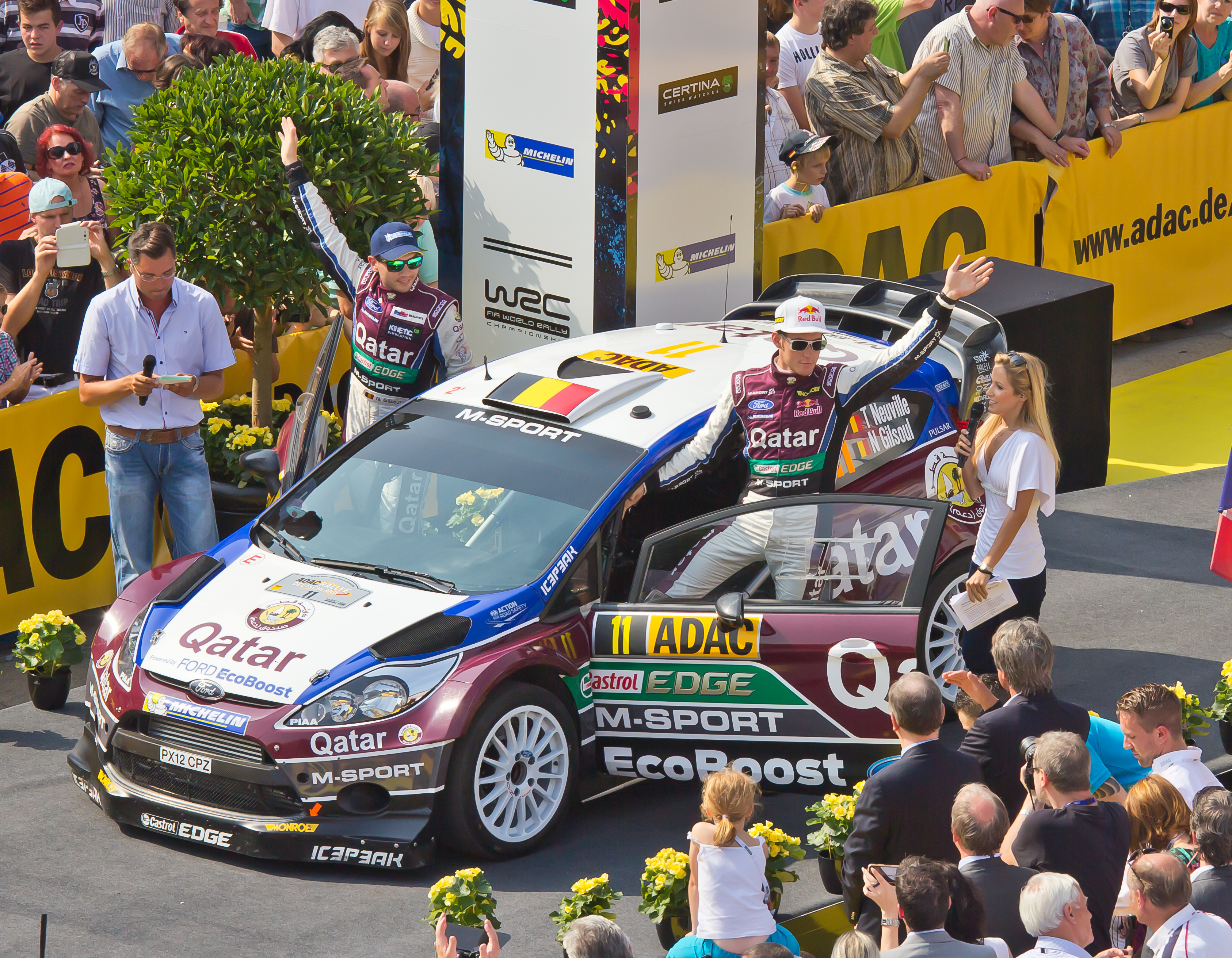 ADAC Rallye Deutschland 2013 - Presentation of the drivers - Qatar World Rally Team - Ford Fiesta RS WRC - Thierry Neuville and Nicolas Gilsoul